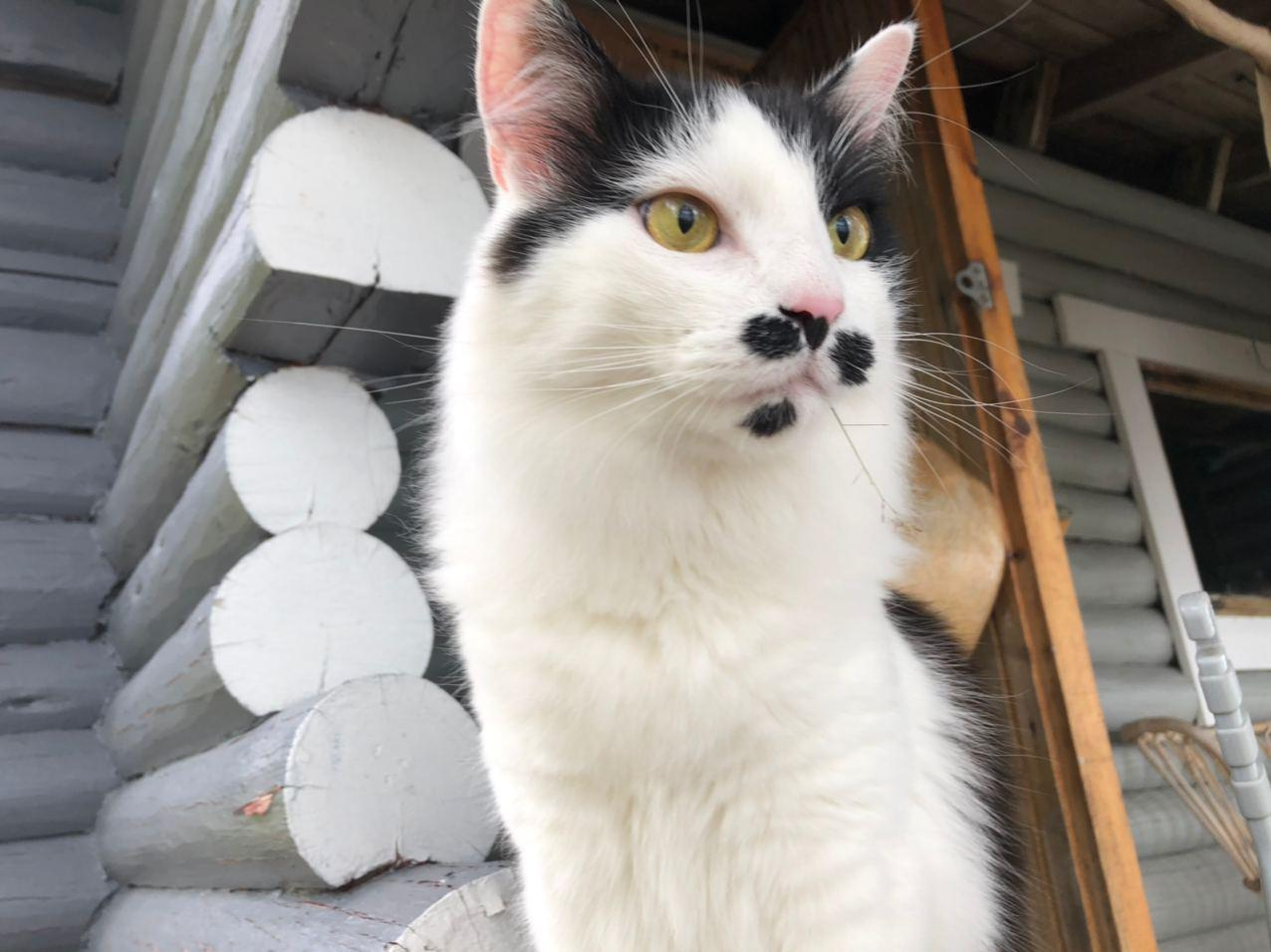 The example of tuxedo cat with unique facial markings.